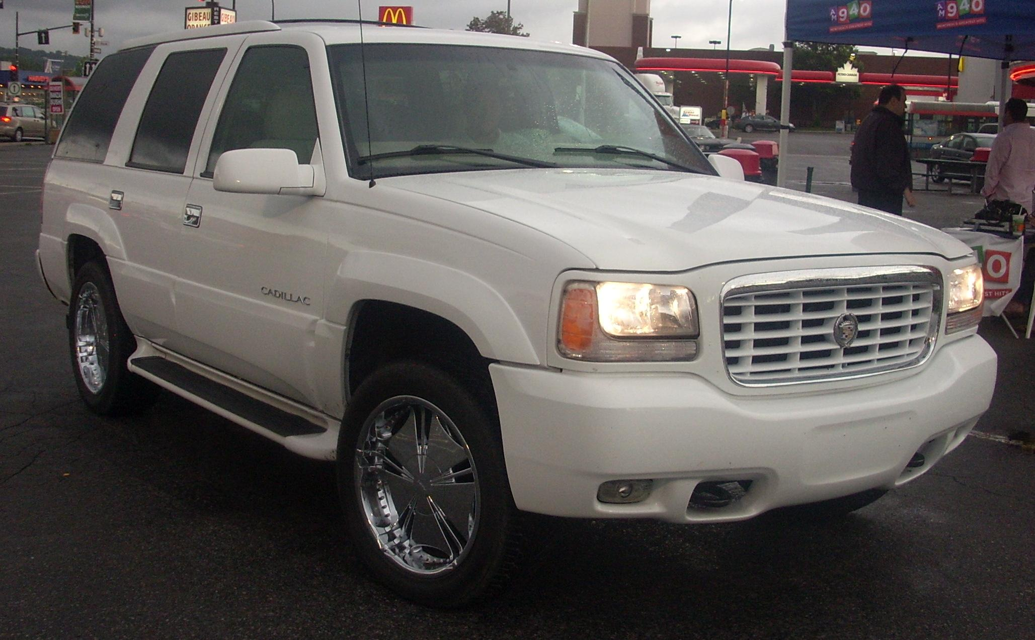 1999-2000 Cadillac Escalade photographed in Montreal, Quebec, Canada at Gibeau Orange Julep.